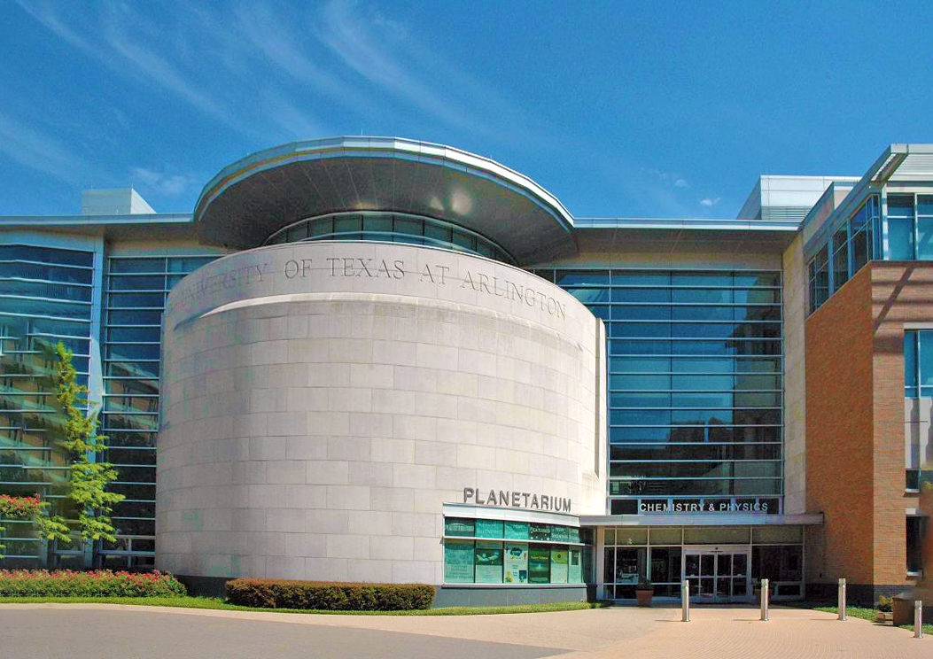 Chemistry & Physics building on the UT Arlington campus in Arlington, Texas, United States. The building contains a planetarium.